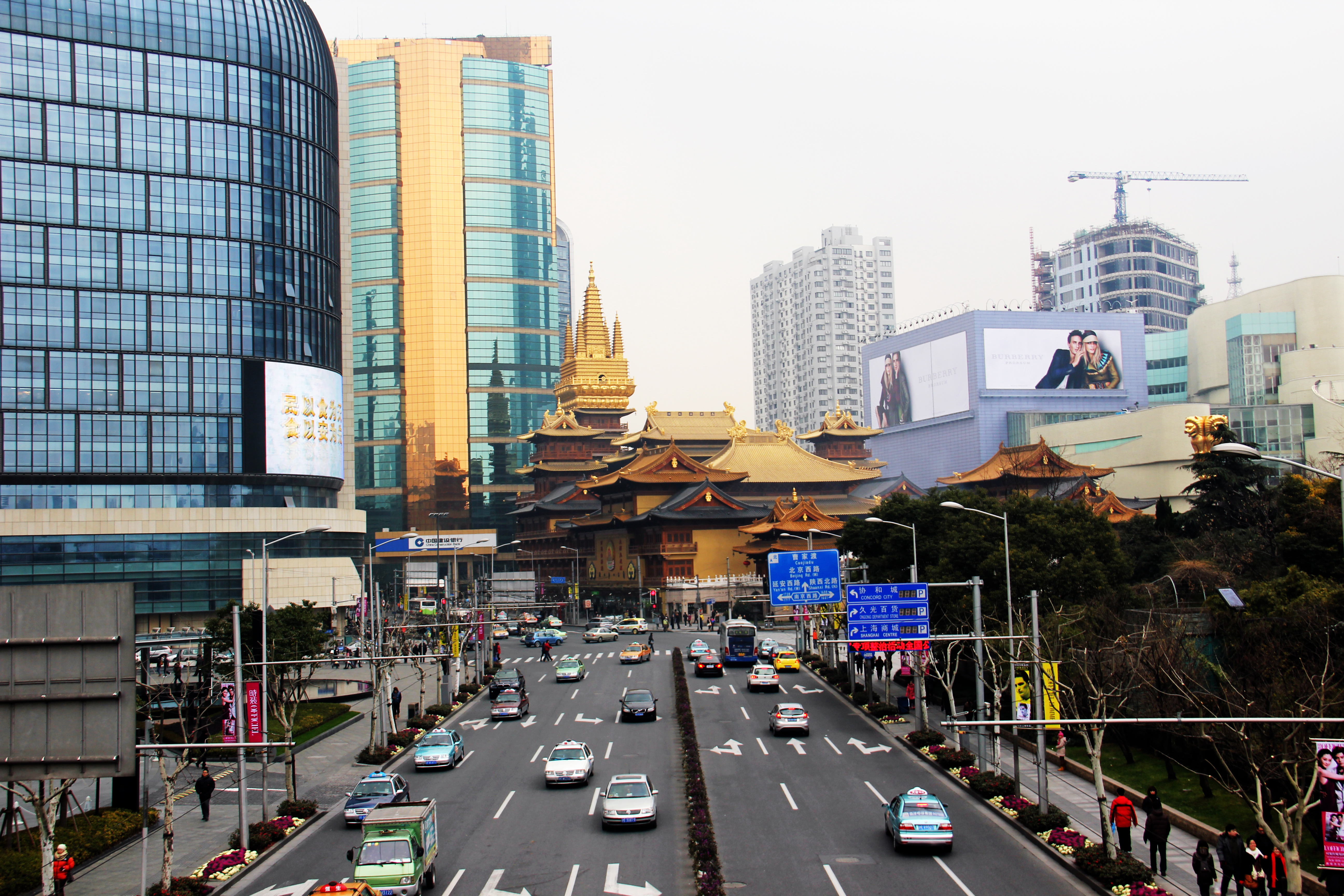 Jing'an temple inside the modern urban area